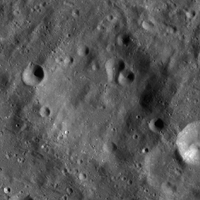 Wan-Hoo crater, on the far side of the moon. Mosaic of LRO WAC images.